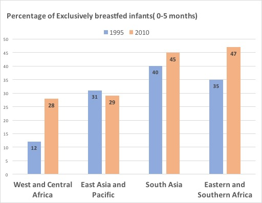 This figure shows Trends in exclusive breastfeeding(EBF) among infants from birth to 5months of four different regions of the world. *Excluding China. This figure was reconstructed using Microsoft Excel using the date published in Xiaodong, Cai (2012). "Global trends in exclusive breastfeeding". International Breastfeeding Journal. Source: MICS, DHS and other national household surveys, around 1995 to around 2010, with additional analysis by UNICEF